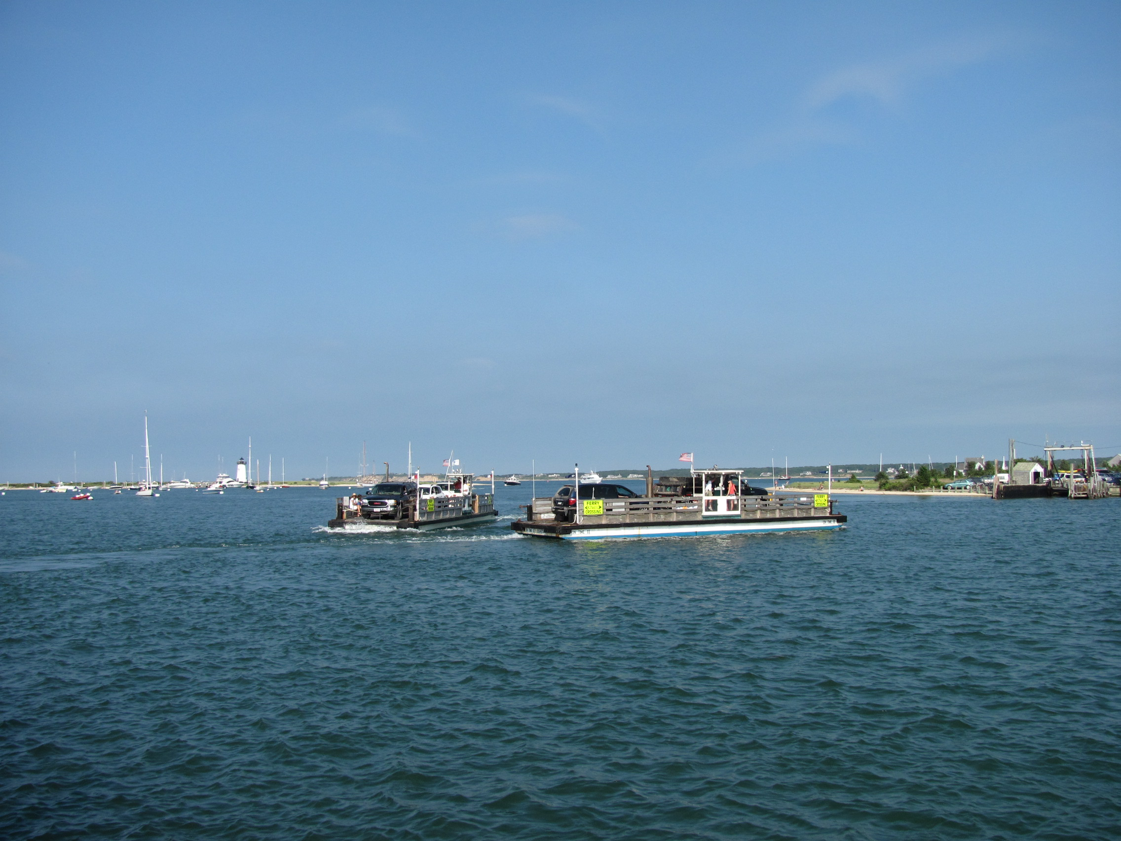 Chappy Ferry, Edgartown Massachusetts - 2010